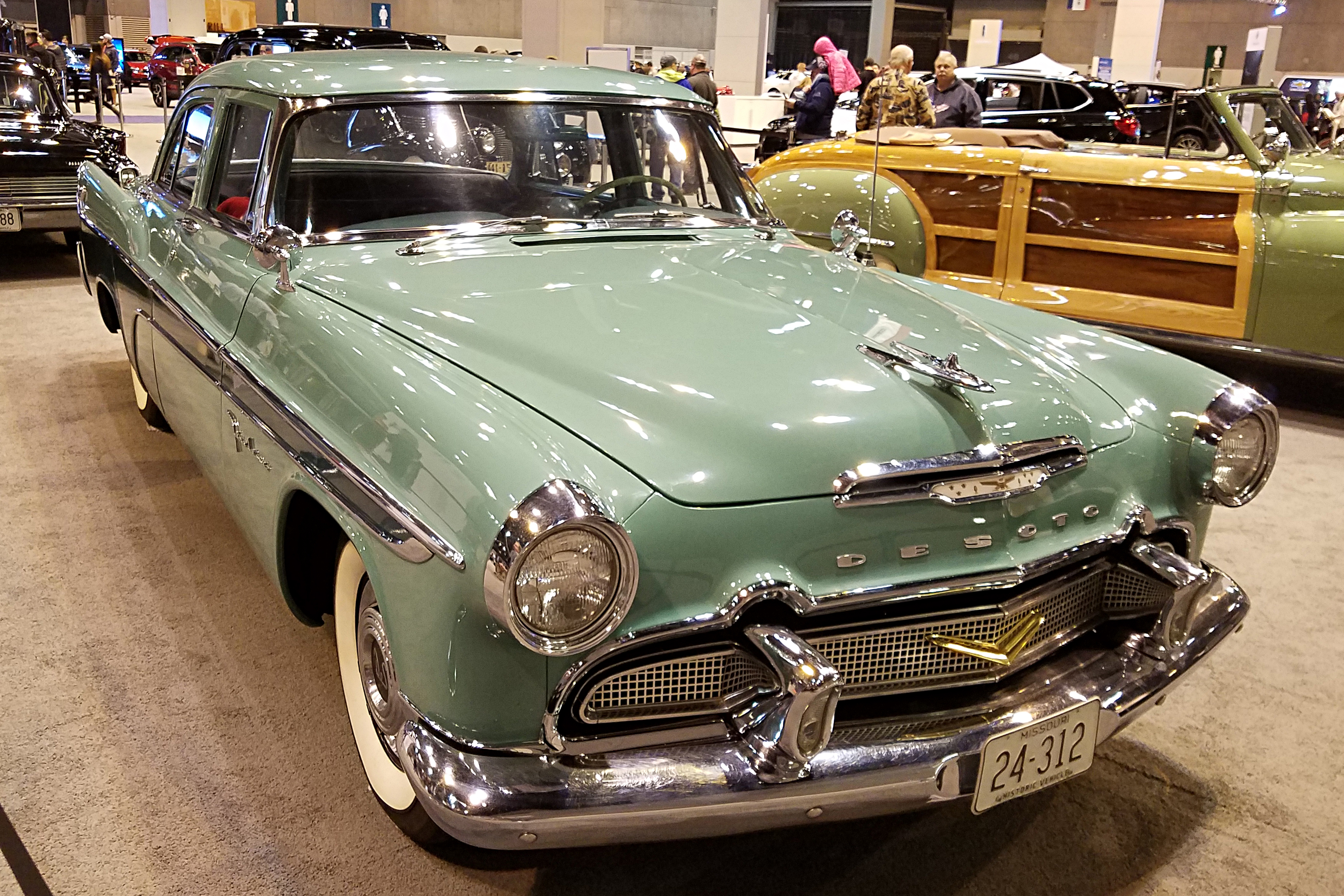 1956 Desoto Firedome Sedan